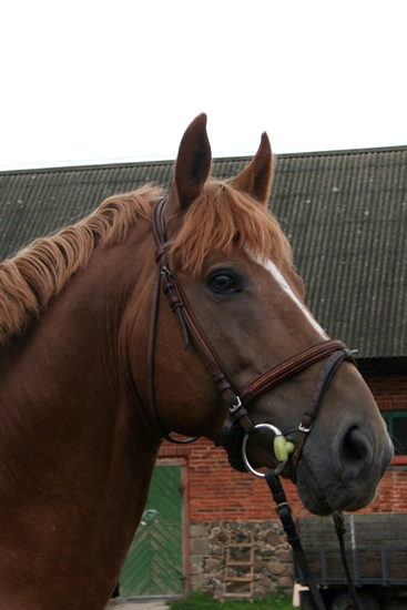 Tori horse, sport type, stallion Preester